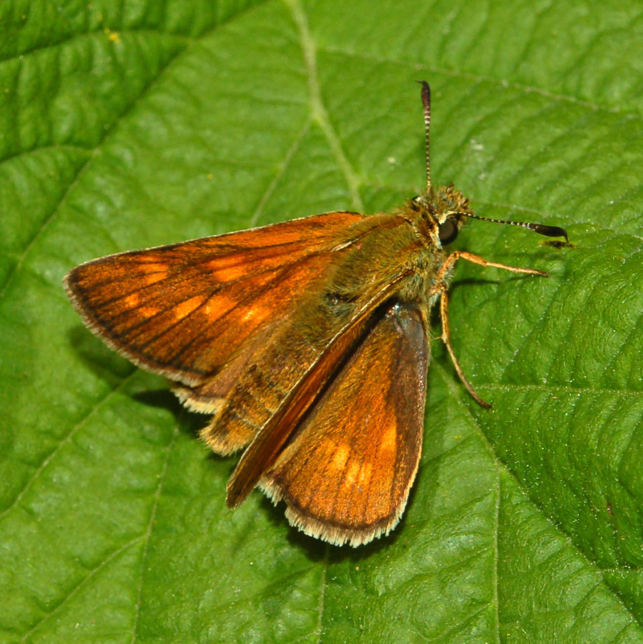 Ochlodes sylvanus. Female. Gorzente, Genova, Italy